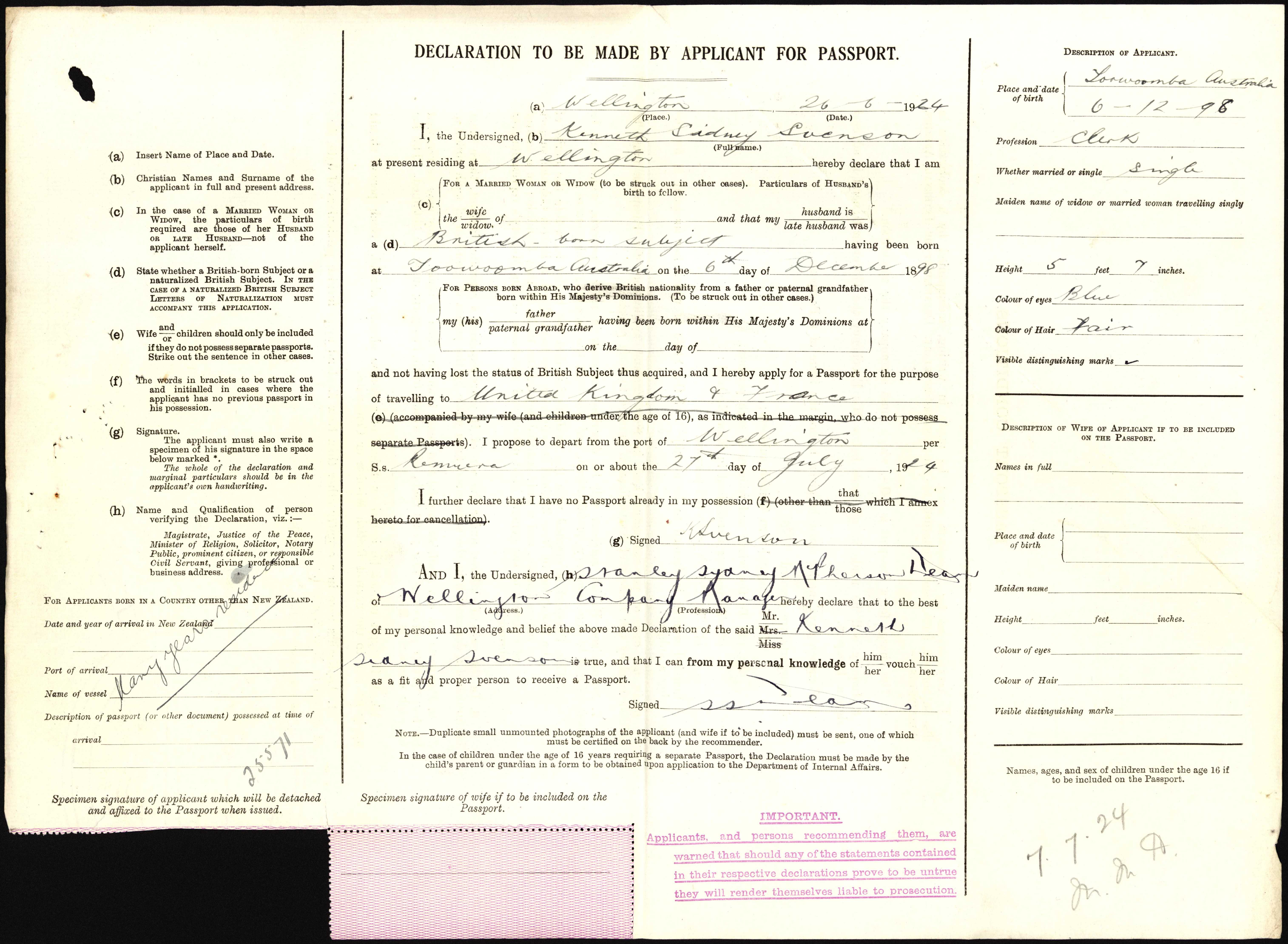 ACGO 8333 IA1 1349 / 15/11/17721 Kenneth Svenson passport application (1924)